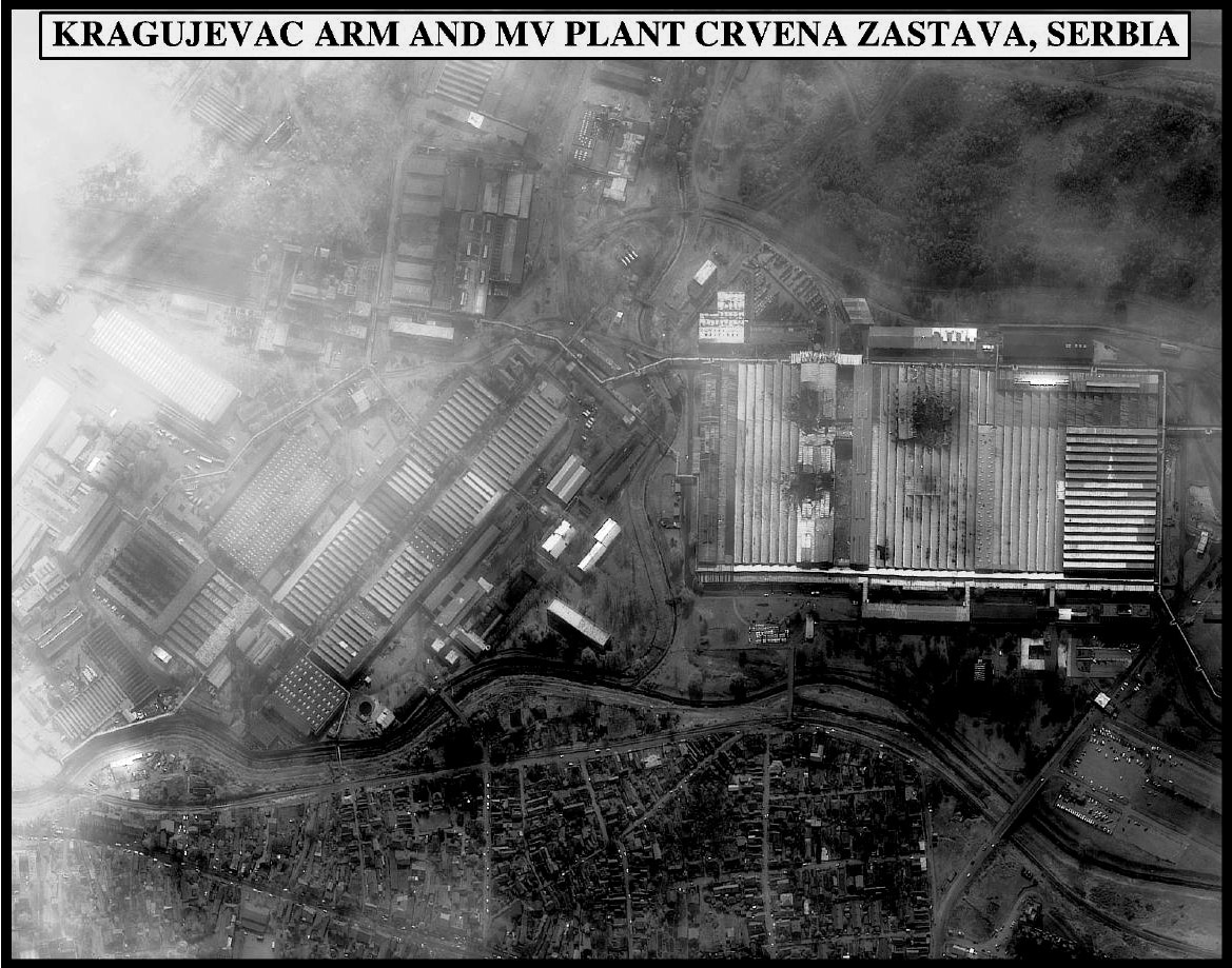 Post-strike bomb damage assessment photograph of the Kragujevac Armor and Motor Vehicle Plant Crvena Zastava, Serbia, used by Joint Staff Director of Intelligence Rear Adm. Thomas R. Wilson, U.S. Navy, during a press briefing on NATO Operation Allied Force in the Pentagon on April 22, 1999. (Released)